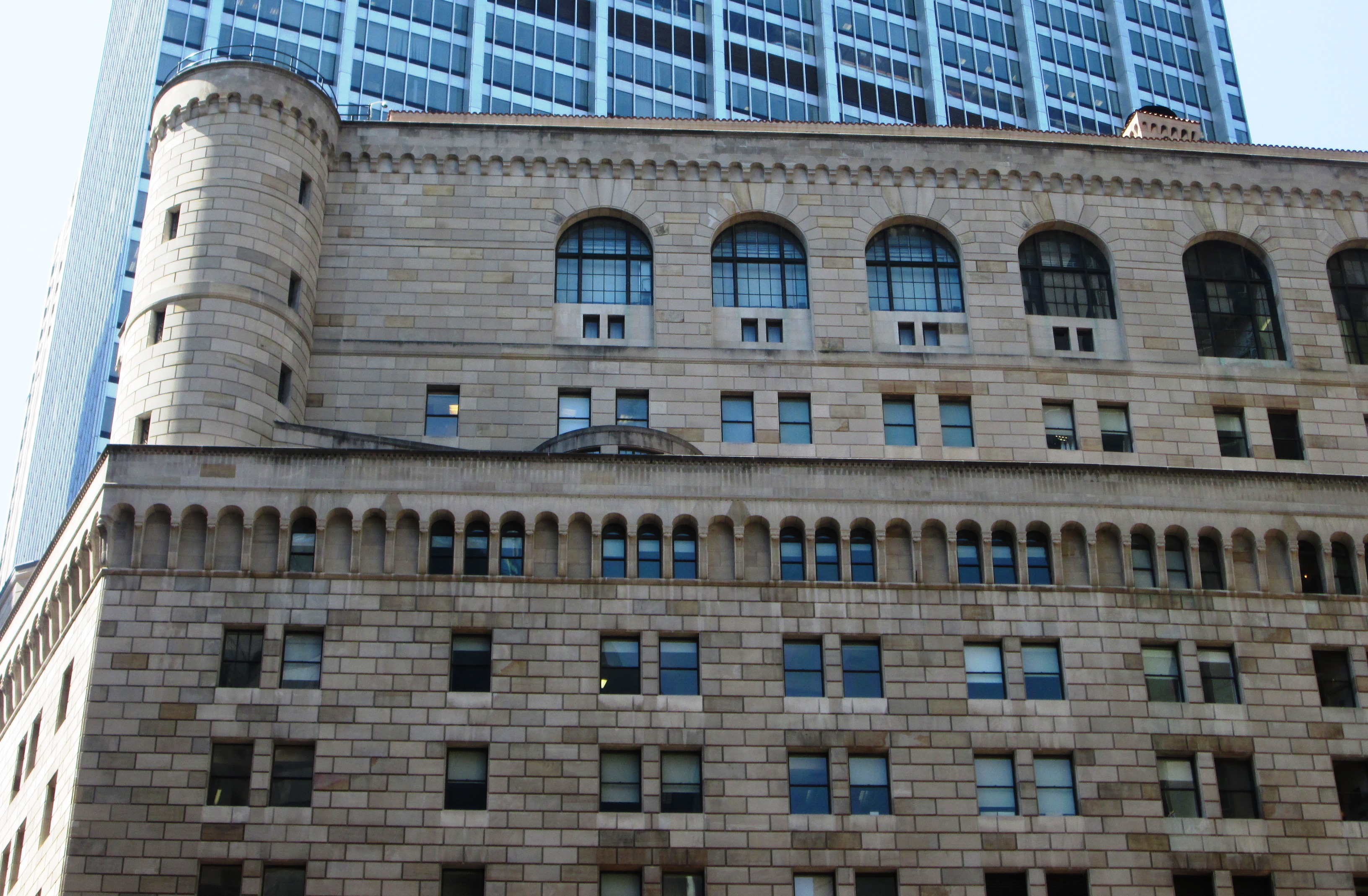 The Federal Reserve Bank of New York Building at 33 Liberty Street and occupying the full block between Liberty, William and Nassau Streets and Maiden Lane in the Financial District of Manhattan, New York City was built from 1919 through 1924, with an extension to the east built in 1935, all designed by York and Sawyer with decorative ironwork by Samuel Yellin of Philadelphia. (Sources: AIA Guide to NYC (5th ed.) and Guide to NYC Landmarks (4th ed.))